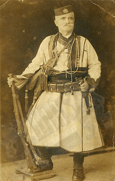 Marko Simeonov Pleshka